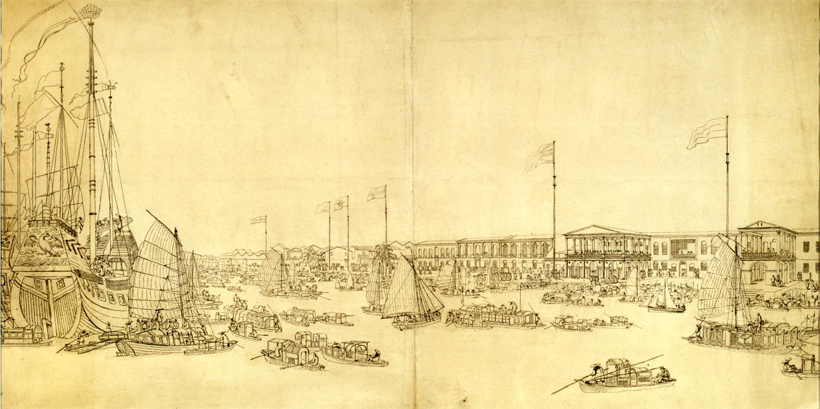 Soft-ground etching of the Canton factory site.